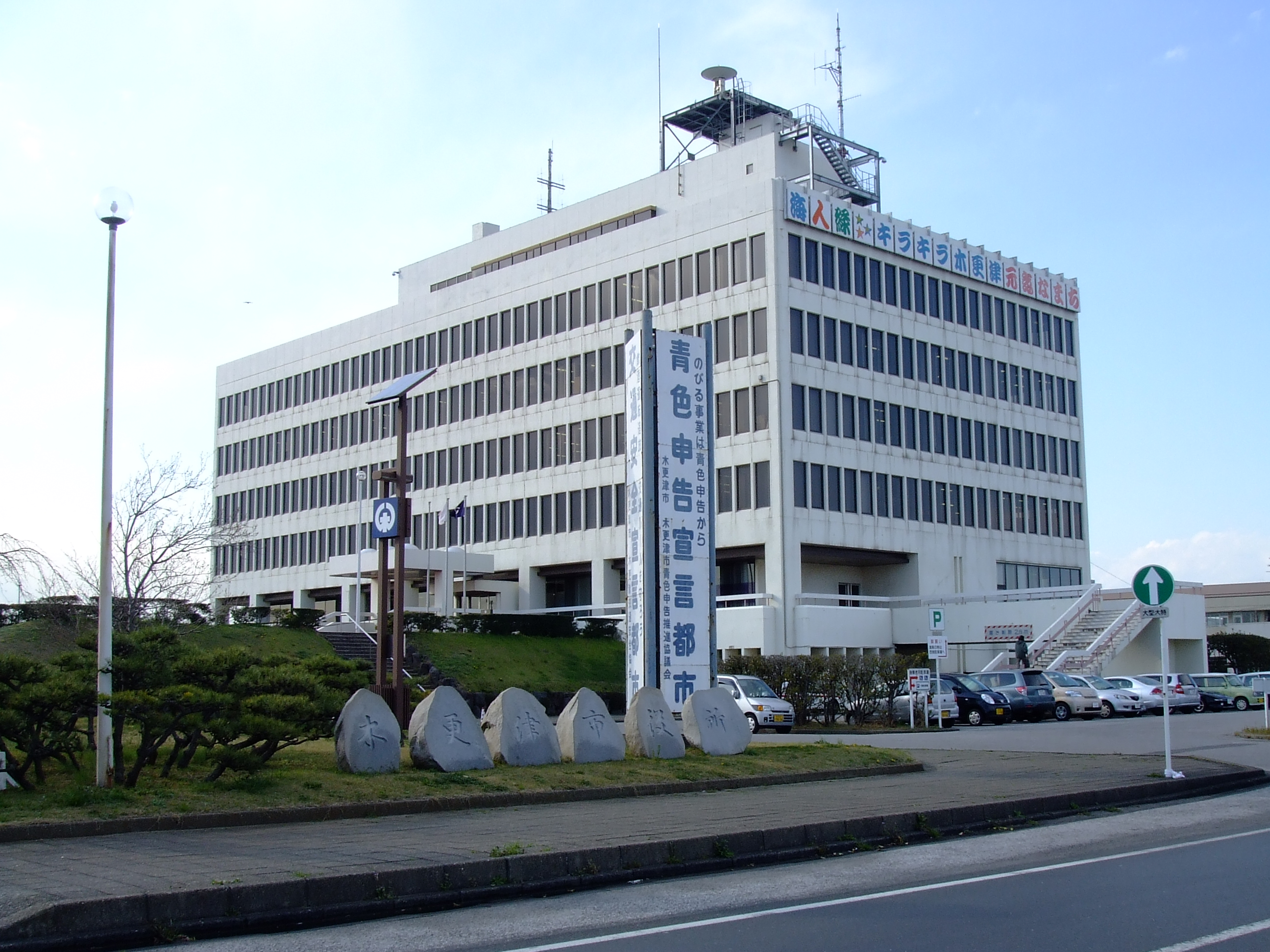 Kisarazu Cityhall